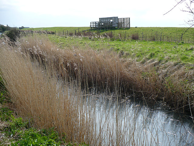 Reen and viewing platform, Newport Wetlands